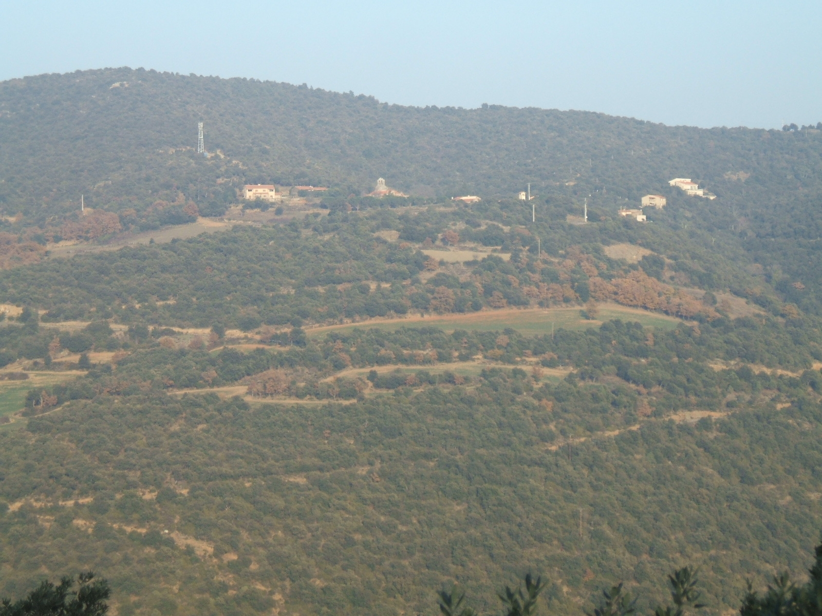 Casefabre : the village viewed from the Serrabone road.